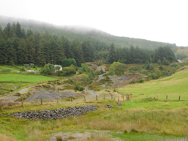 Upper Cwmsymlog A view towards the upper valley of Cwmsymlog, illustrating that much remains to show the intensive mining activity of the past.